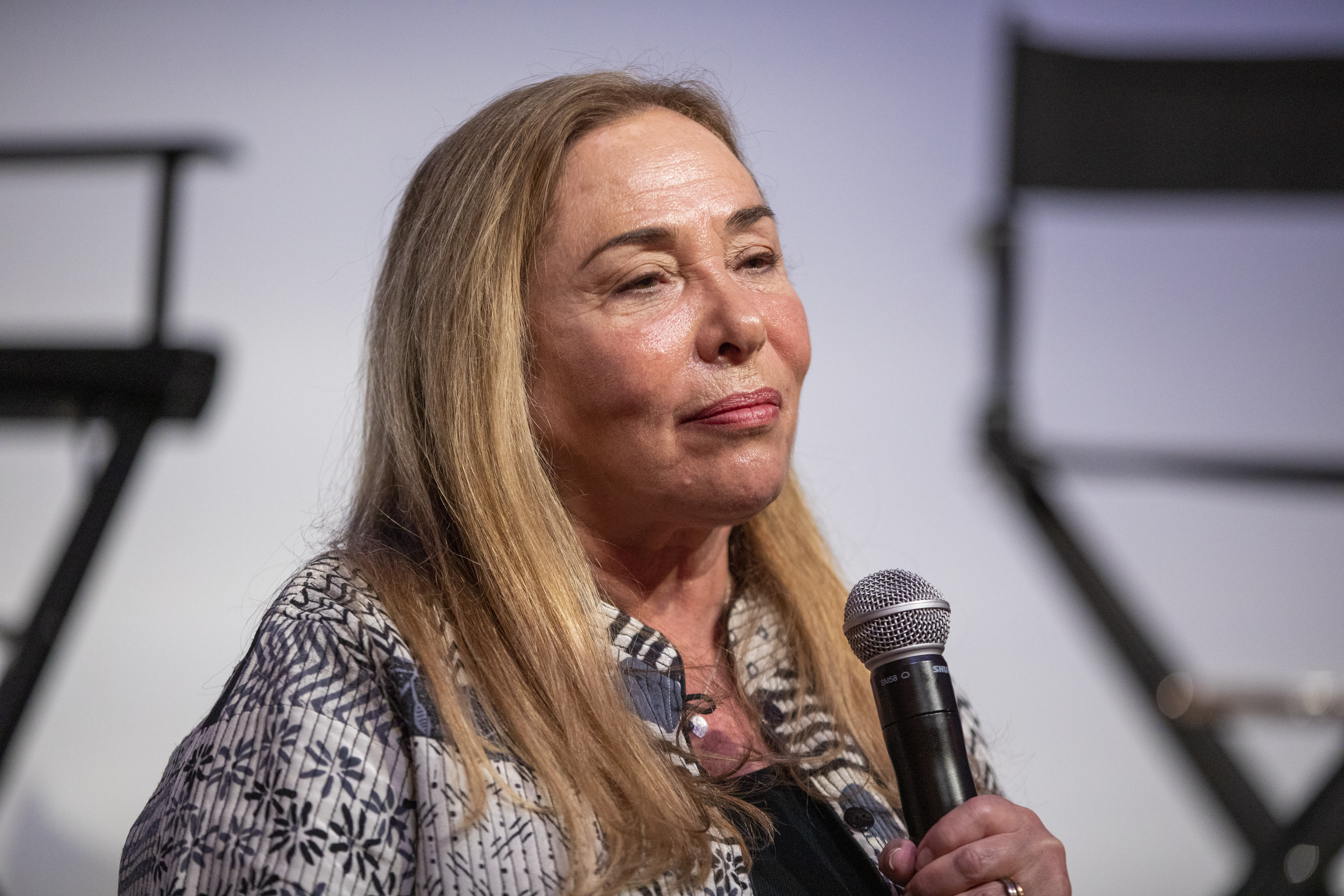 Susan Seidelman. Screening and debate, 'Desperately Seeking Susan', Moody College of Communication, 7 February 2020